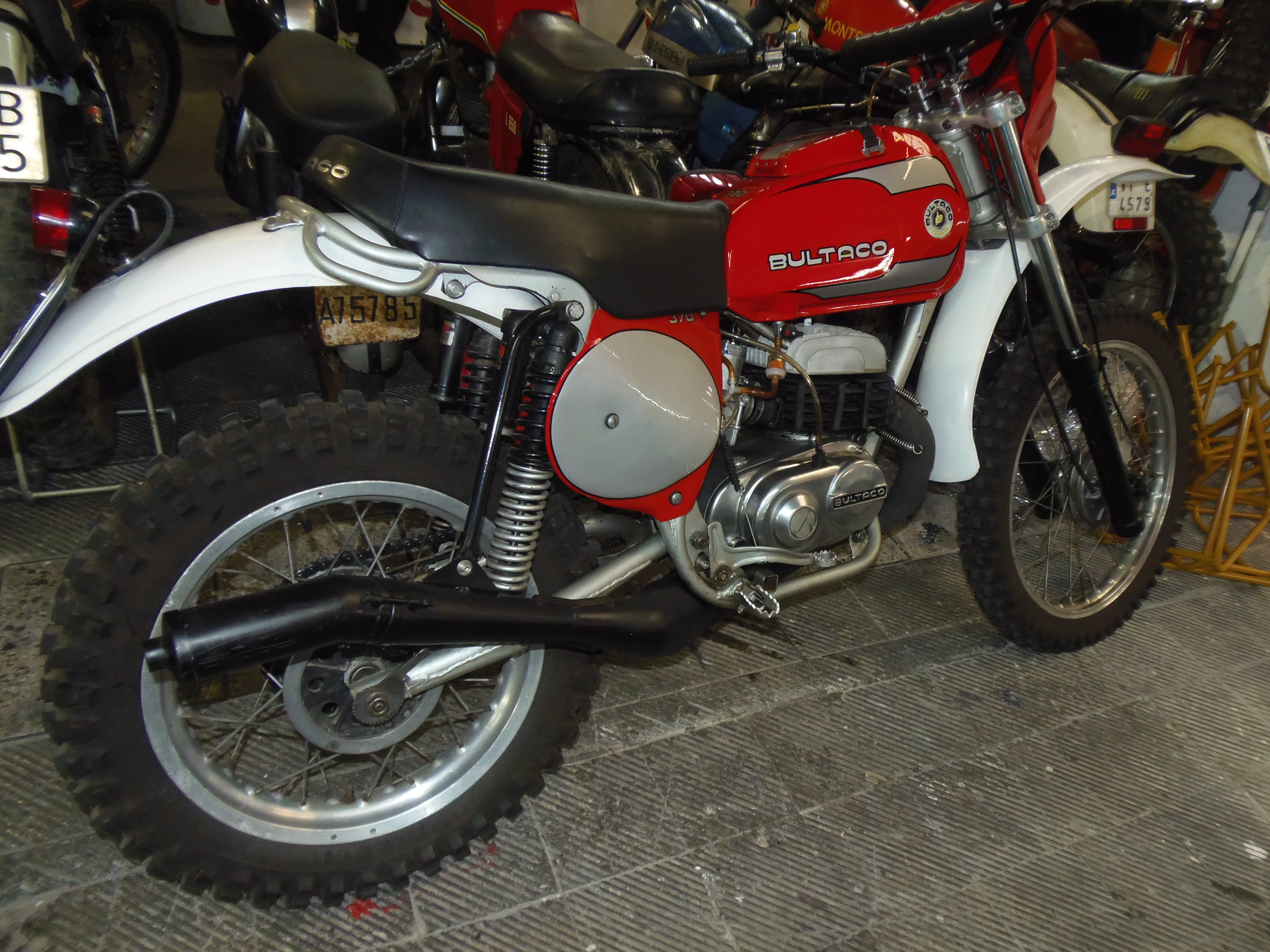 Bultaco Frontera MK10 370, 1976